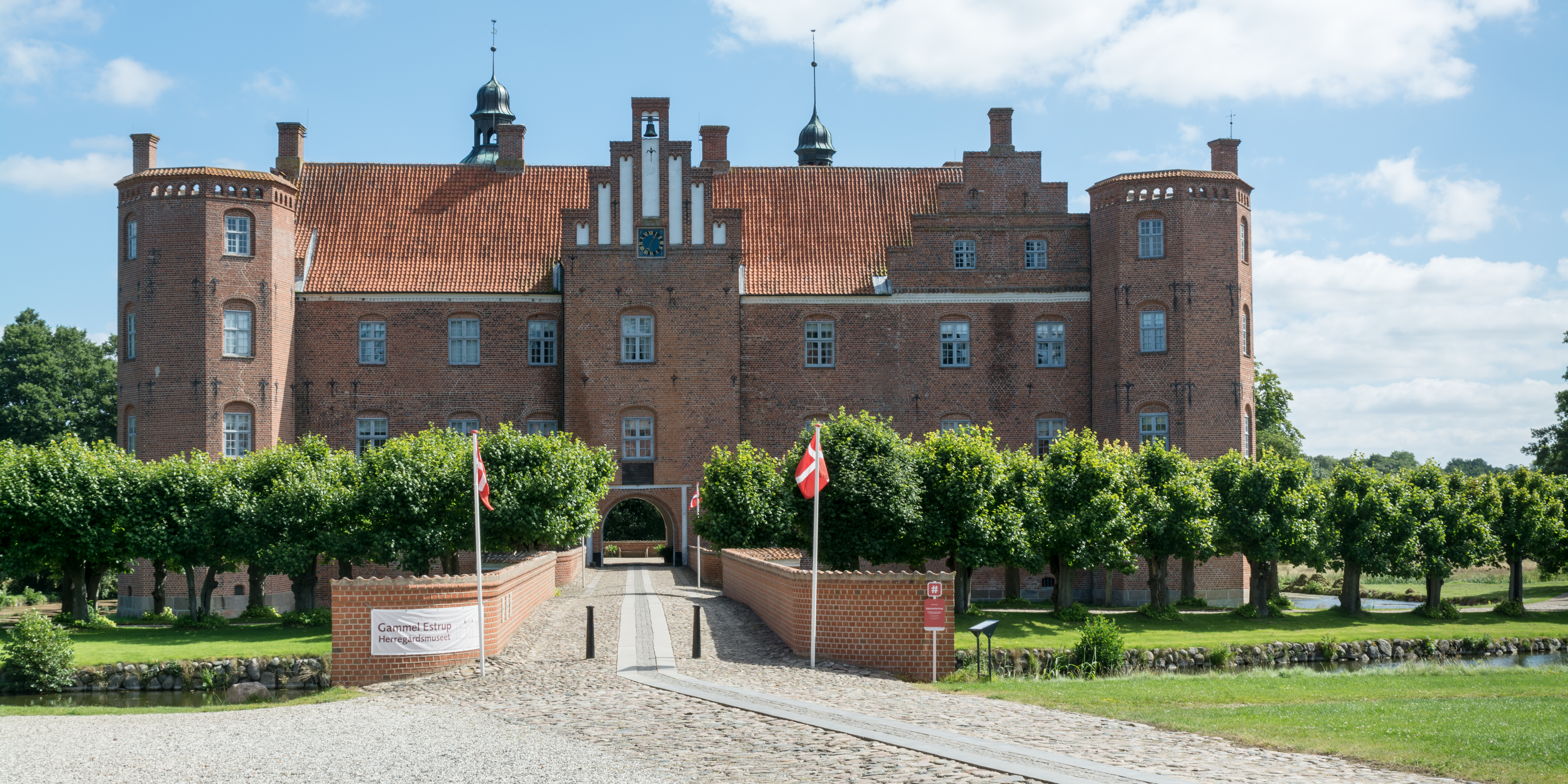 Main building of Gammel Estrup manor (Norddjurs Kommune).